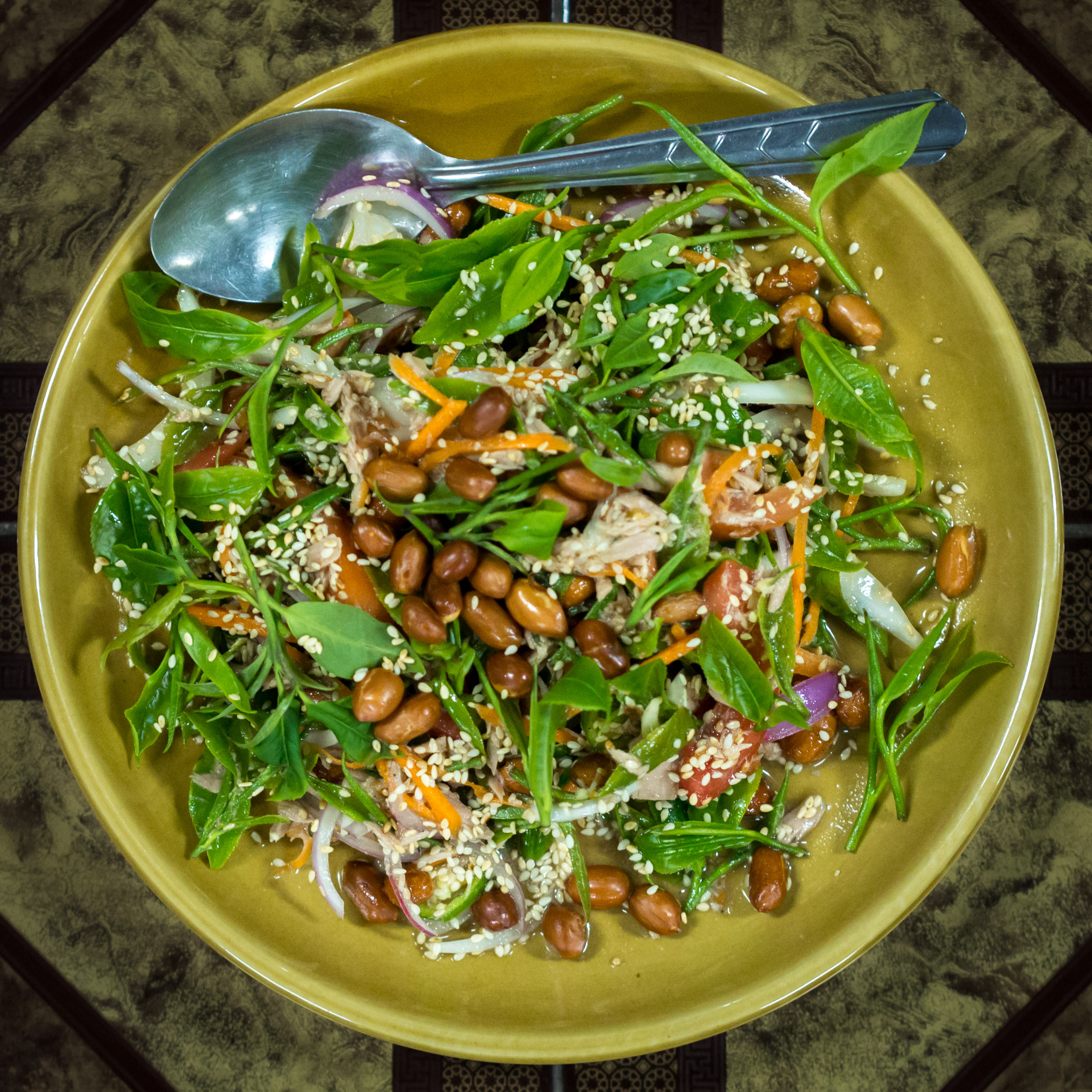 Yam bai cha (Thai script: Category: ยำใบชา) is a spicy Thai salad made with young, fresh tea leaves. This particular version, which included canned tuna, was served in a Muslim restaurant in a Chinese dominated, tea-growing village in the mountains of northern Thailand.